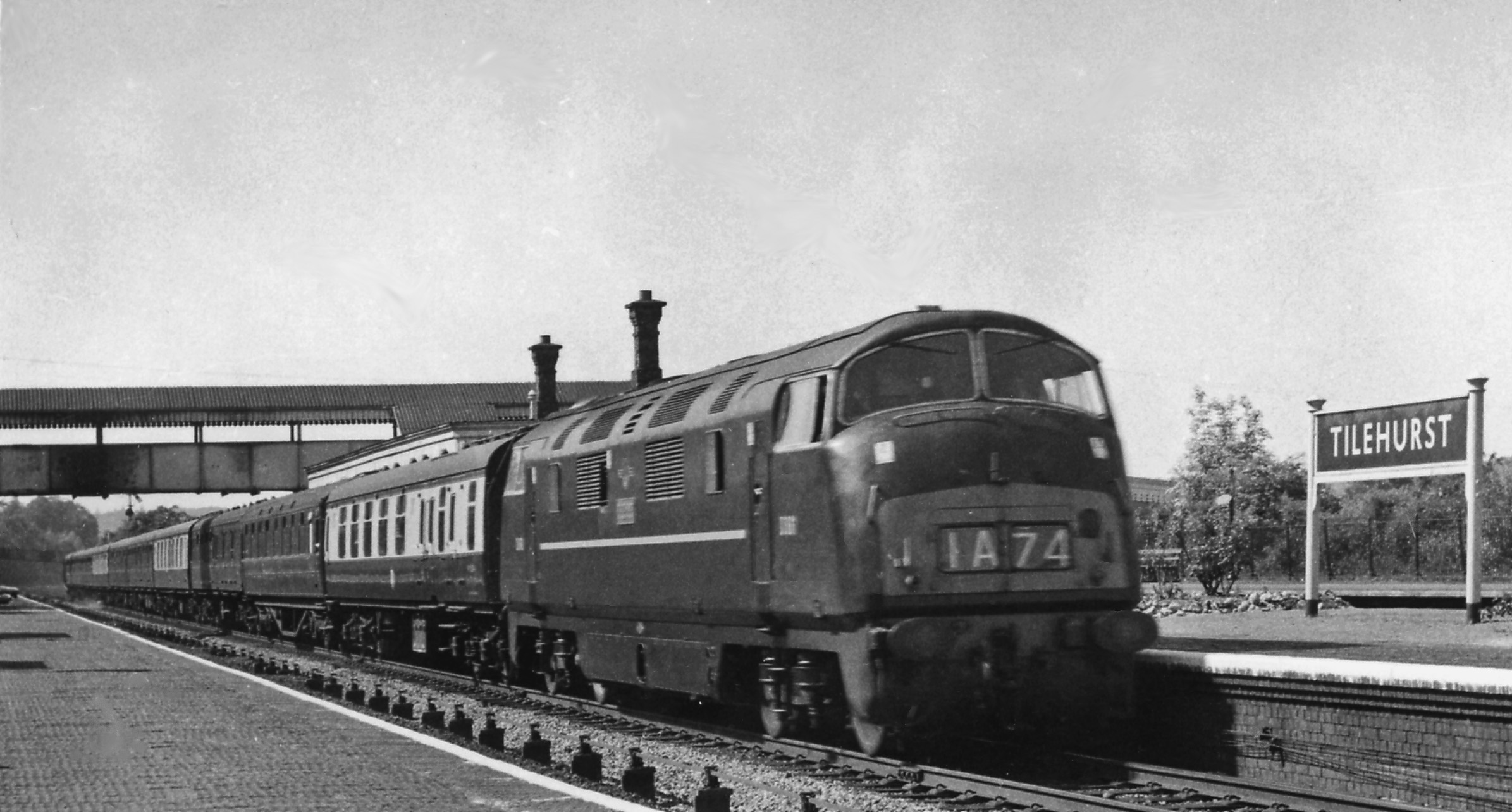 Up Diesel-hauled express passing Tilehurst station. View NW, towards Swindon etc.; ex-Great Western London Paddington - Bristol etc. main line. The 12.10 Taunton - Paddington is headed by NB Loco Type 4 2,200hp B-B 'Warship' No. D861 'Vigilant'.